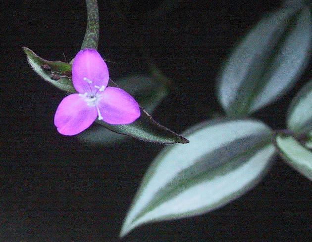 Close-up from photo of plant Tradescantia zebrina (formerly Zebrina pendula), showing flower and zebra-stripe leaves.